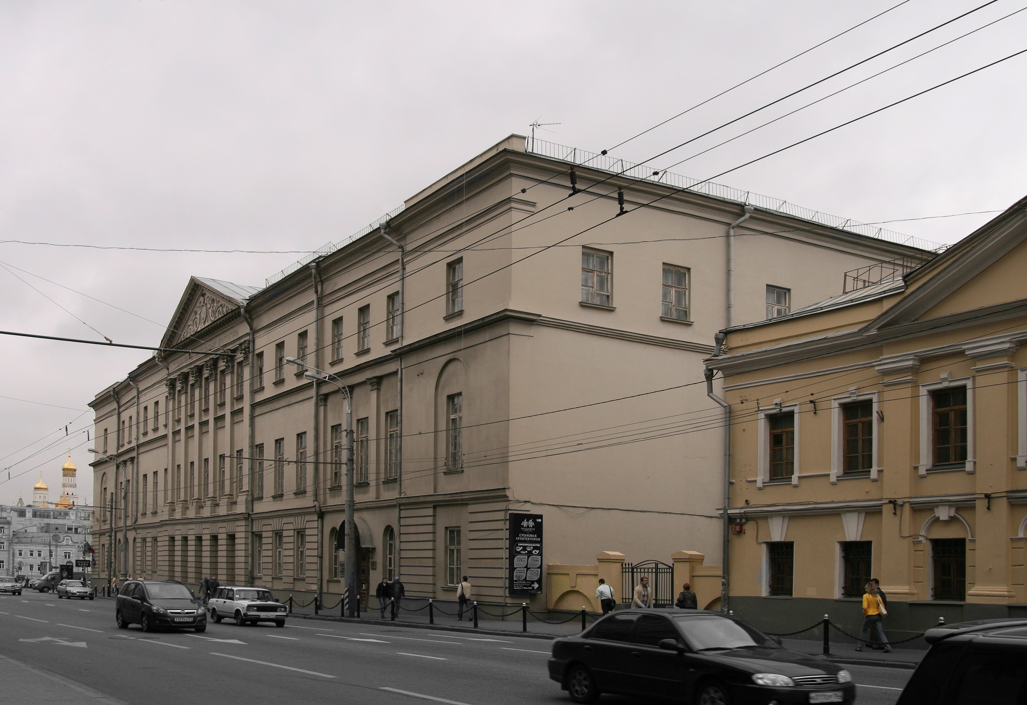 Museum of the Architecture, Moscow